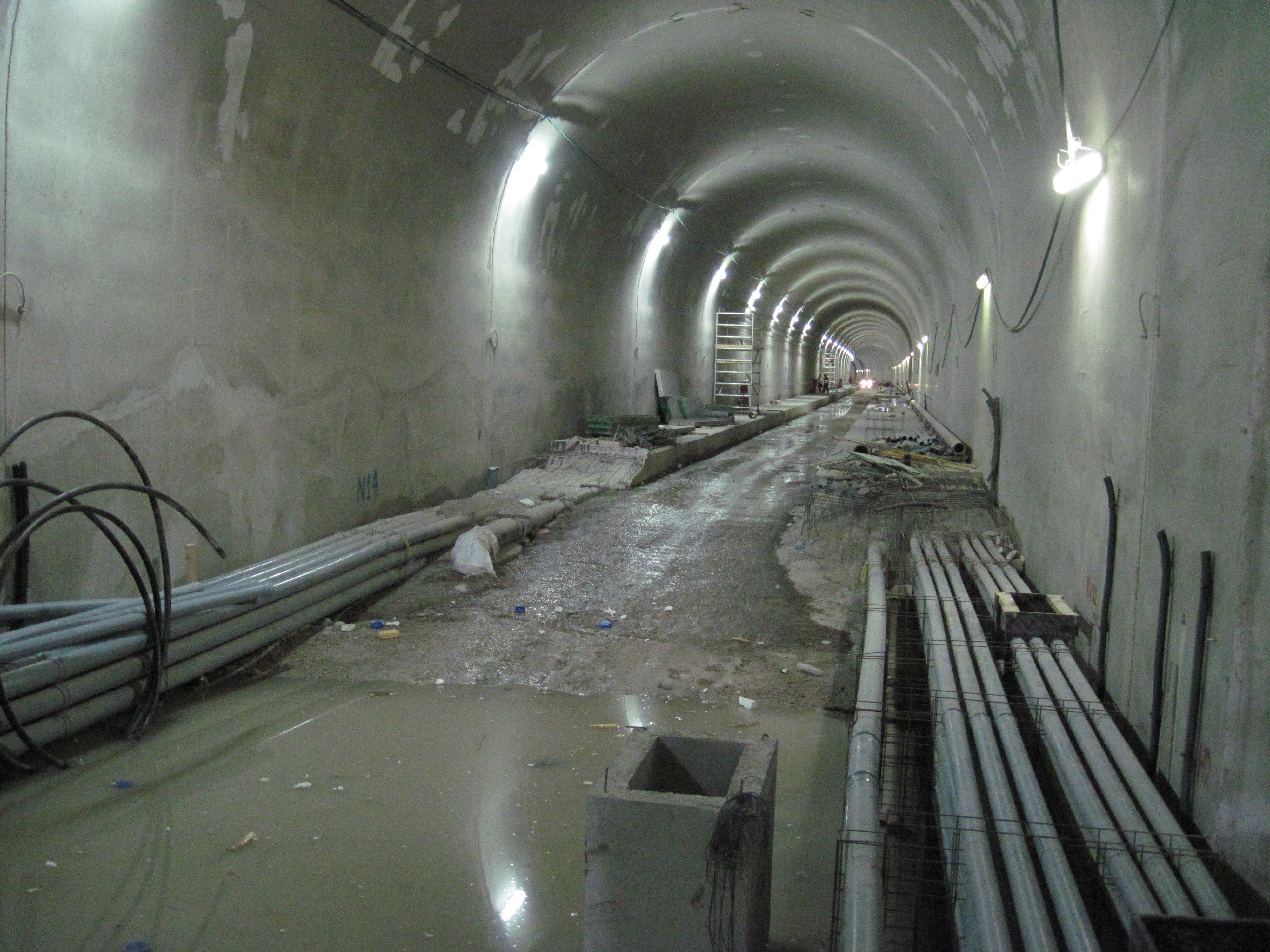 Gilon Tunnels - northen tunnel